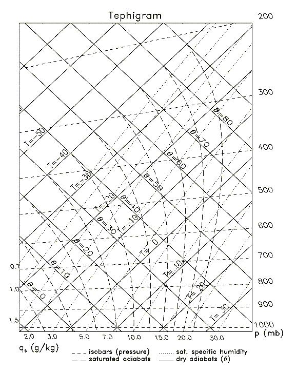 Blank tephigram